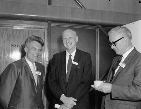 Atomic Scientists meet in Sydney, (New South Wales) - Atomic Scientists from fifteen nations have arrived for Conference at the Australian Atomic Energy Commission Research Establishment at Lucas Heights. Photo shows: (left to right) Professor Gennady Yagodin, Professor Sir Philip Baxter and Professor R Street